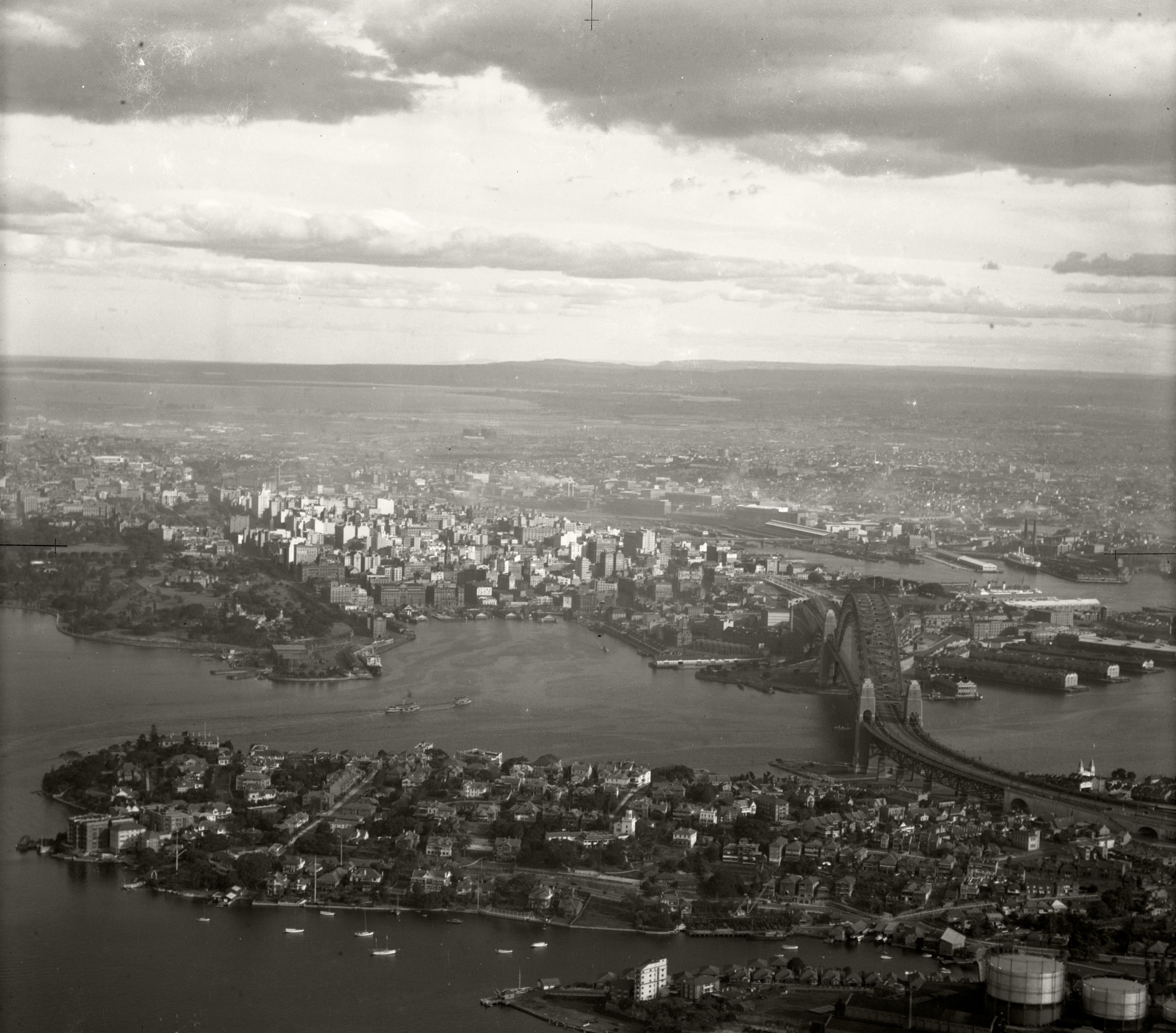 RAHS / Adastra Aerial Photography Collection